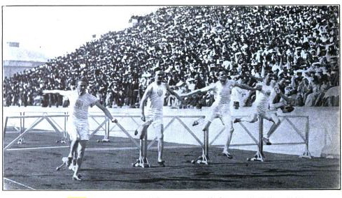 The competitors in the finals of the 110 metre hurdles, 1906 Athens games. Future judge Hugo Friend at left.